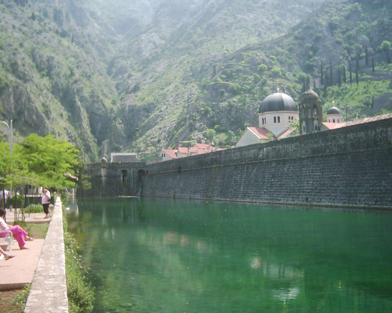 Walls of Kotor